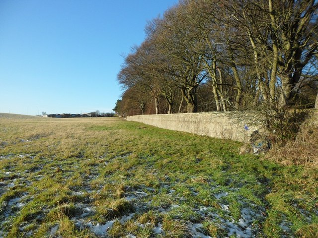 South edge of Callendar Wood at Woodend Farm